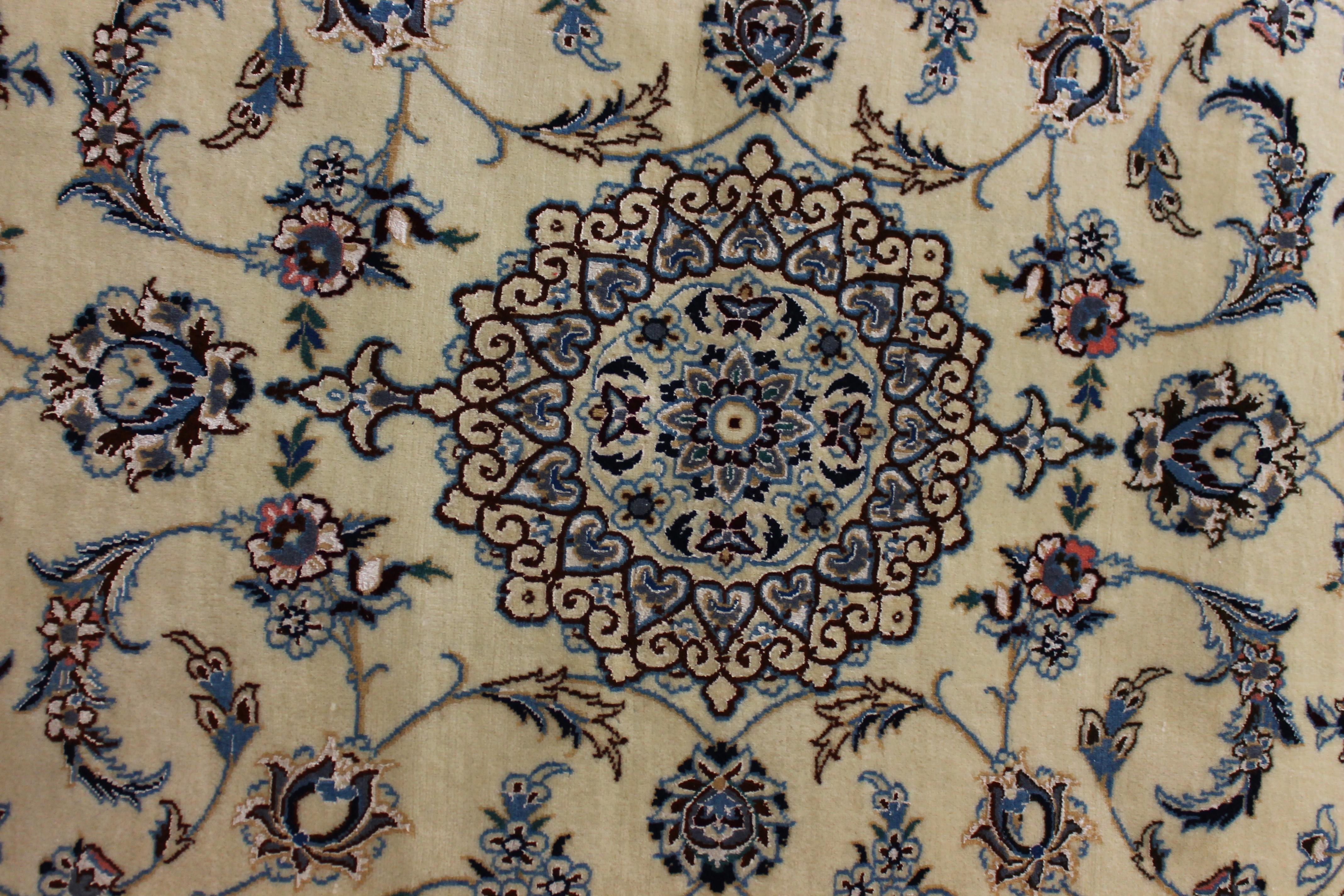 Na'in's carpet.